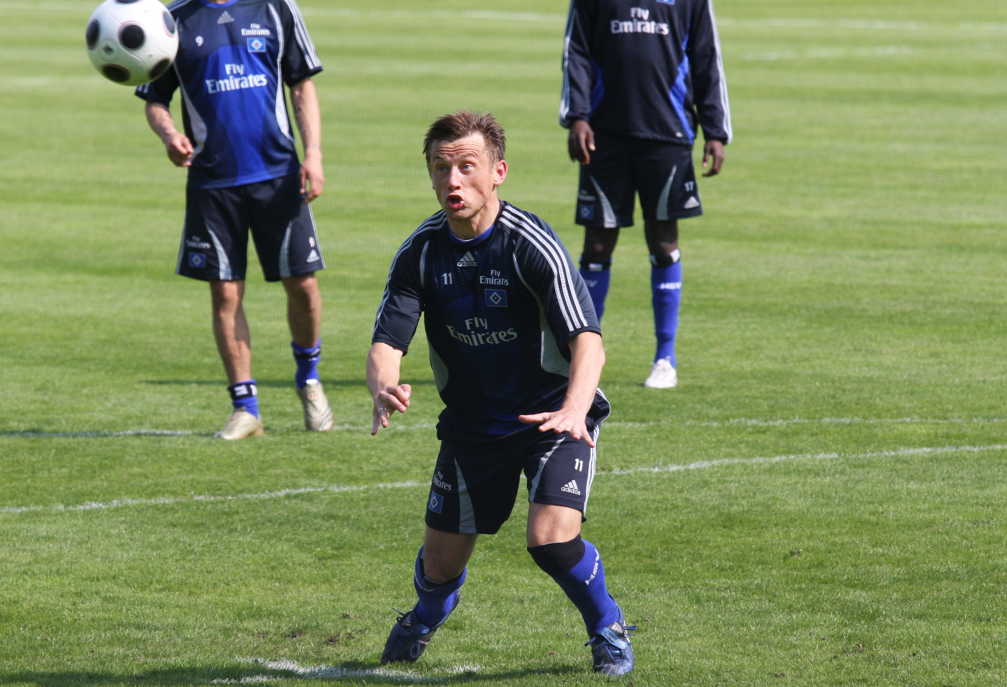 Croatian association football player Ivica Olić